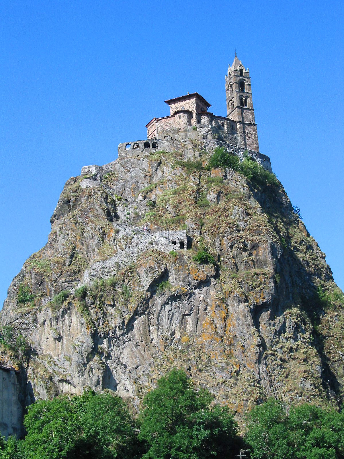 Aiguilhe (Haute-Loire - France), the chapel of Saint Michel (XIth century).